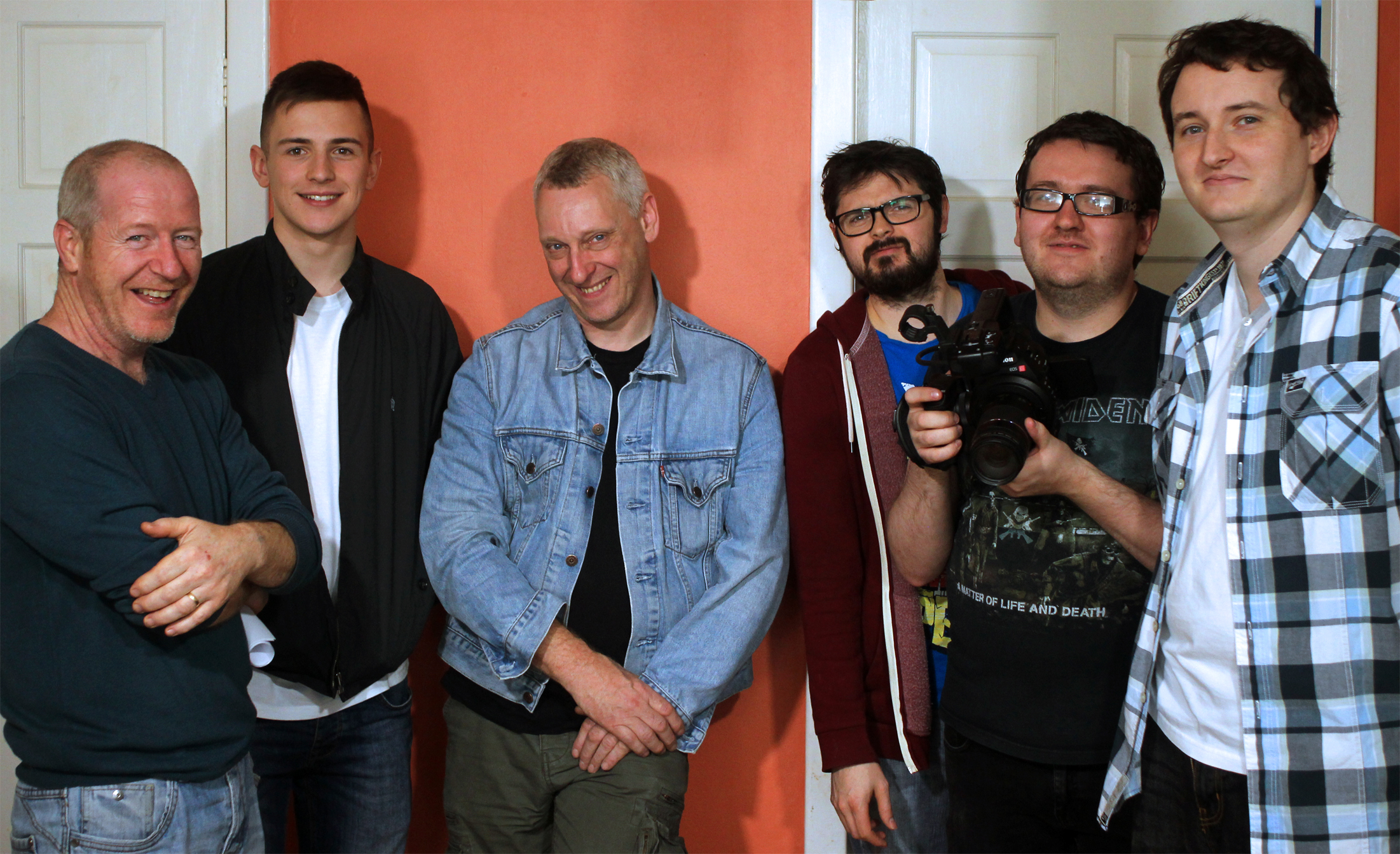 Cast Photo from Broken Record (2014).